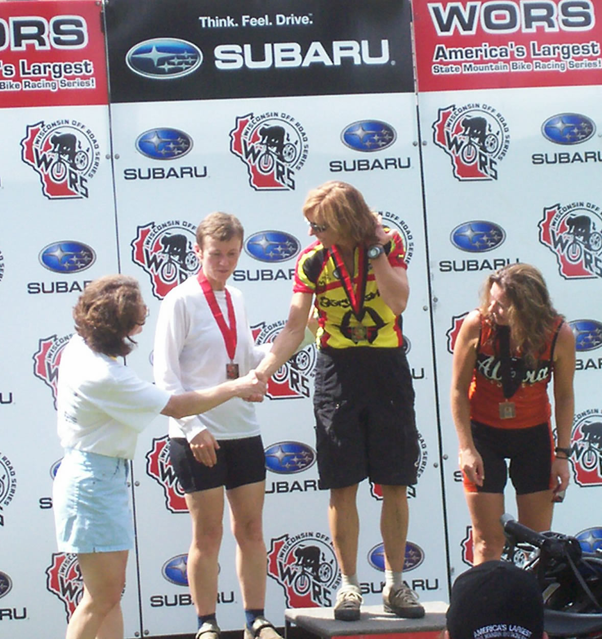 Wisconsin Off Road Series drivers competing at a series race at the Calumet County Park near Stockbridge, Wisconsin, United States. I took this image myself on August 6, 2006 (date on camera was set wrong). This image is a child of the English Wikipedia image Image:WORSRace.jpg, for it was cropped from that image's original on my harddrive.